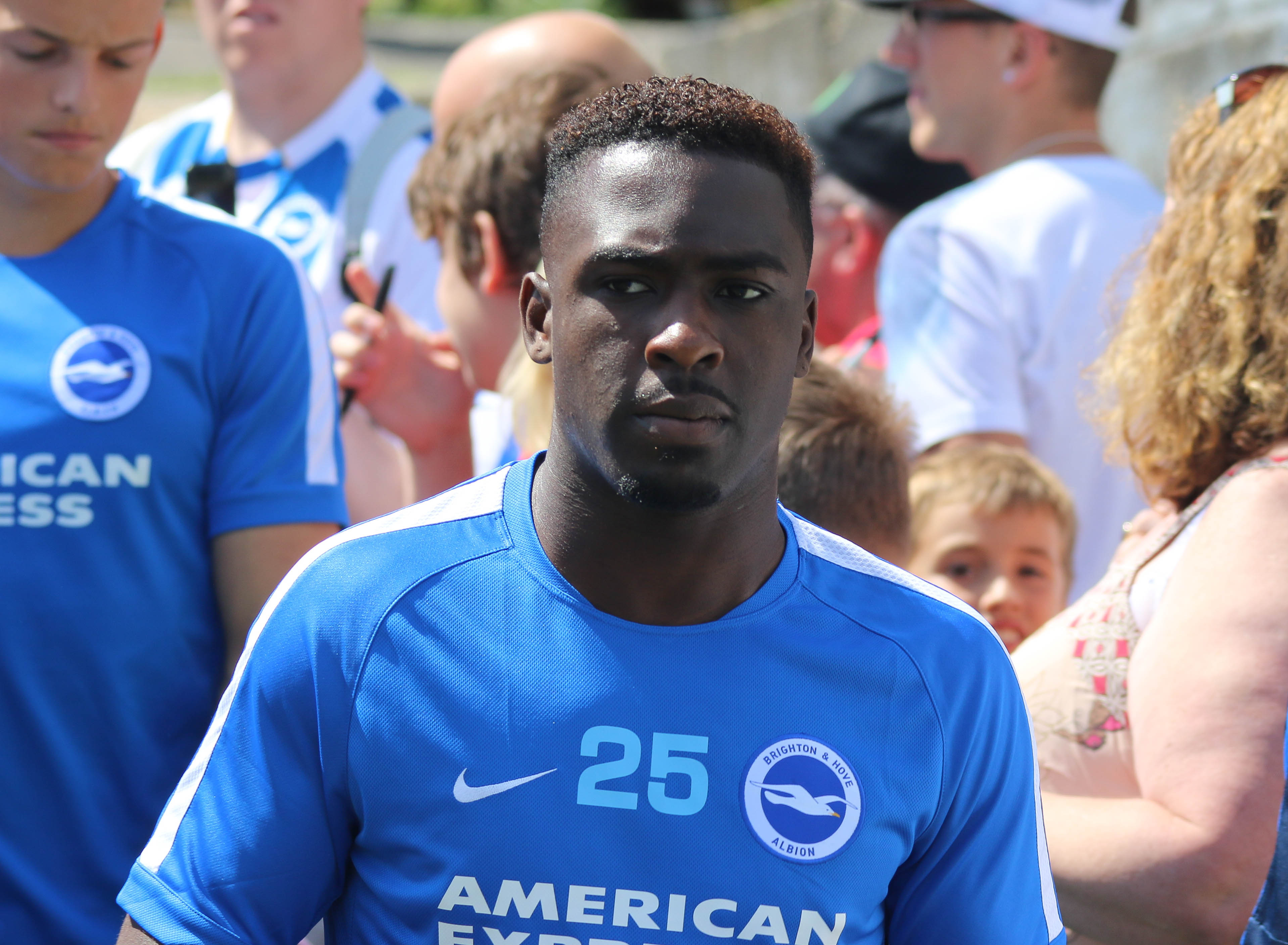 Lewes 0 BHA 0 18 July 2015-046.jpg